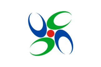 Flag of Uda Nara